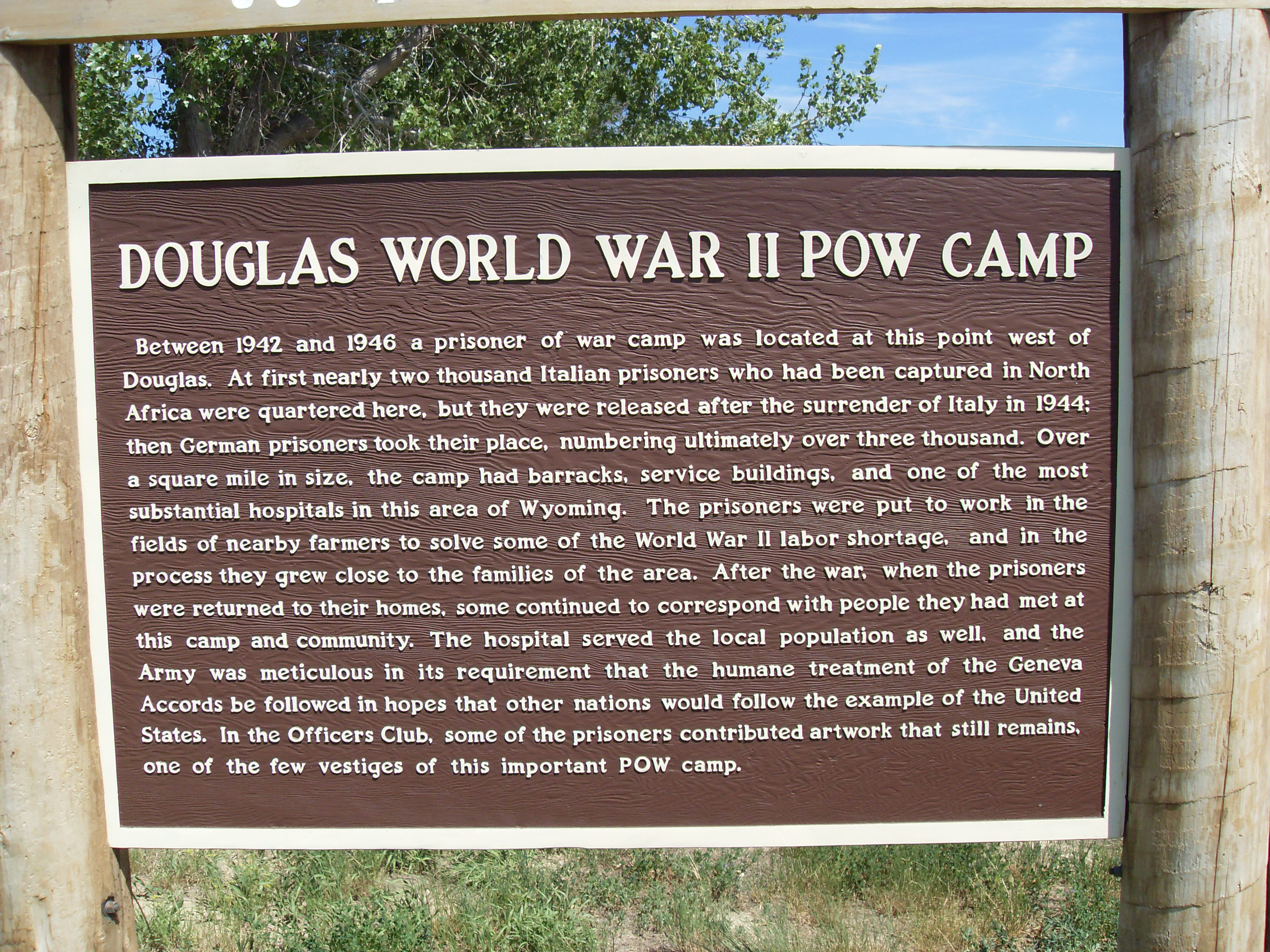 Explanation sign at the entrance of the Douglas, Wyoming WWII POW Camp